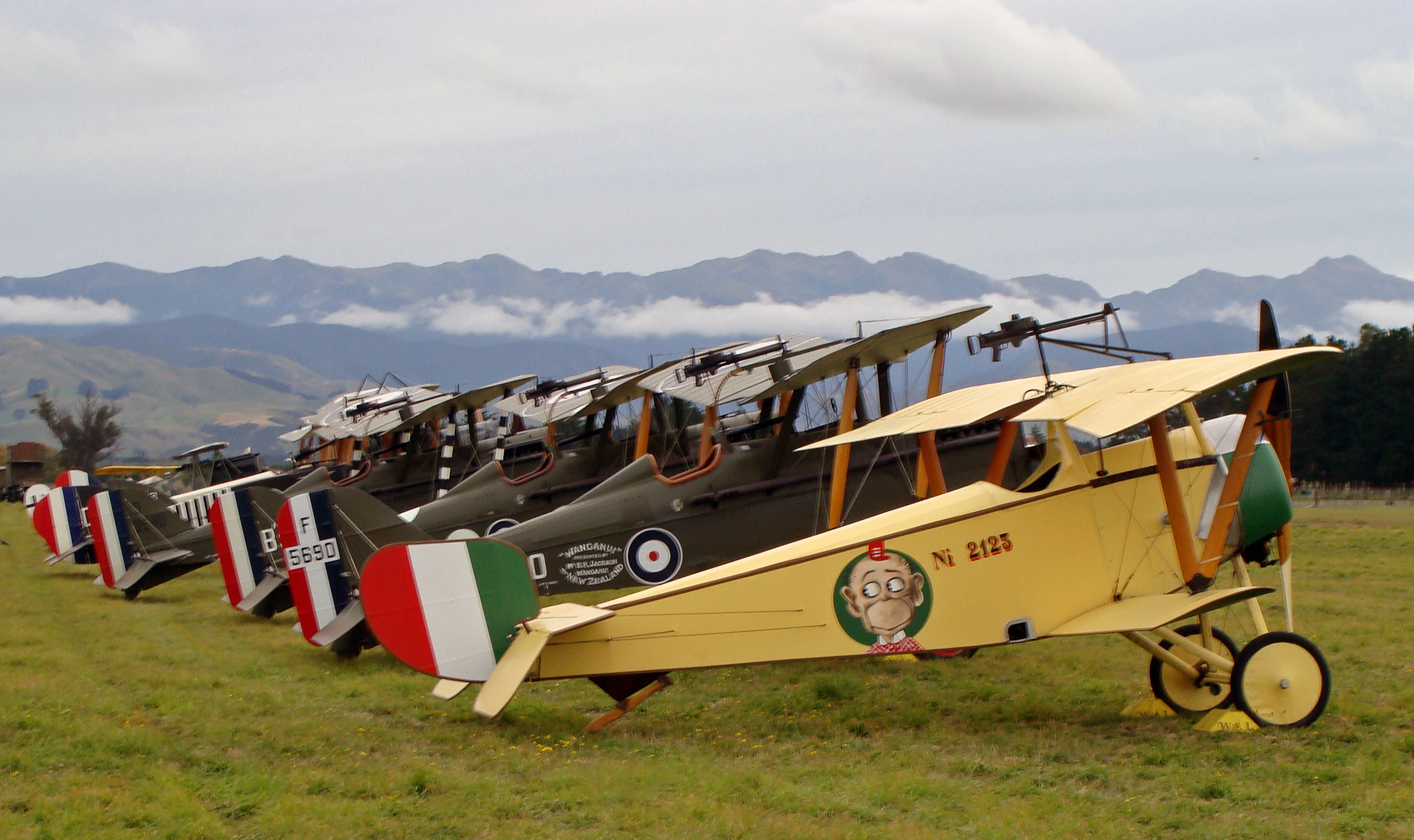 Nieuport 11, Masterton, New Zealand, 25 April 2009 ANZAC Day display